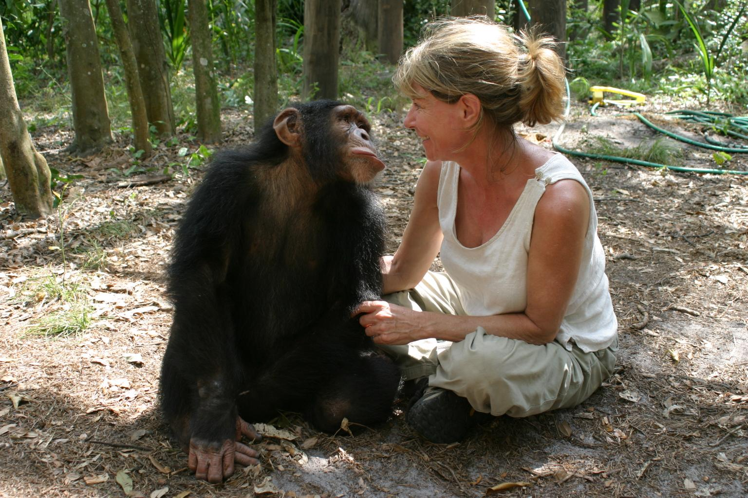 Director Allison Argo on location filming Chimpanzees, An Unatural History (ArgoFilms)